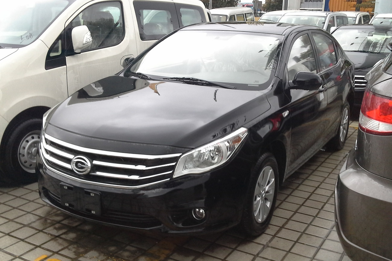 Gonow Emei photographed in Shanghai, China.